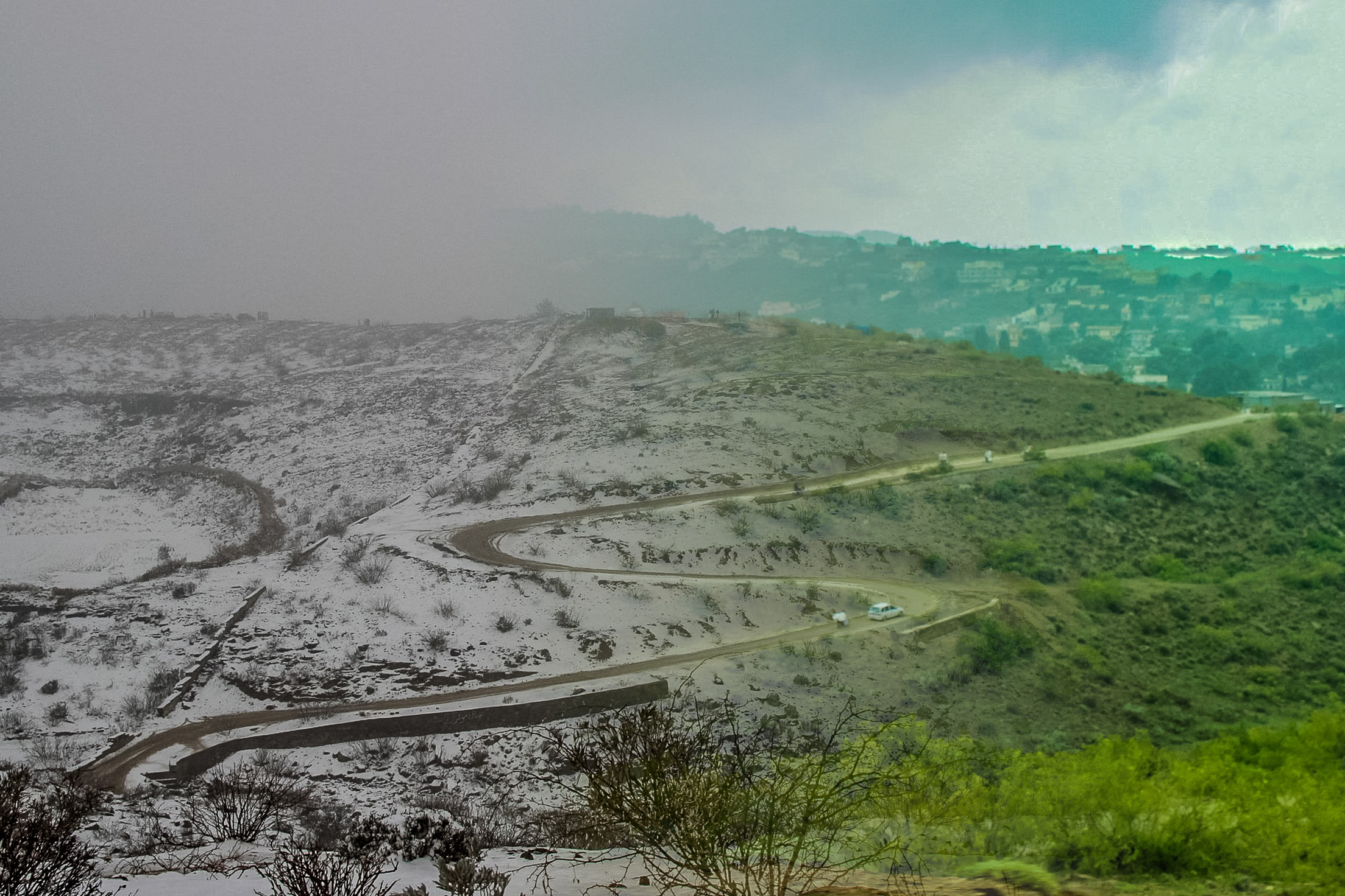 Seasons of Fort Munro